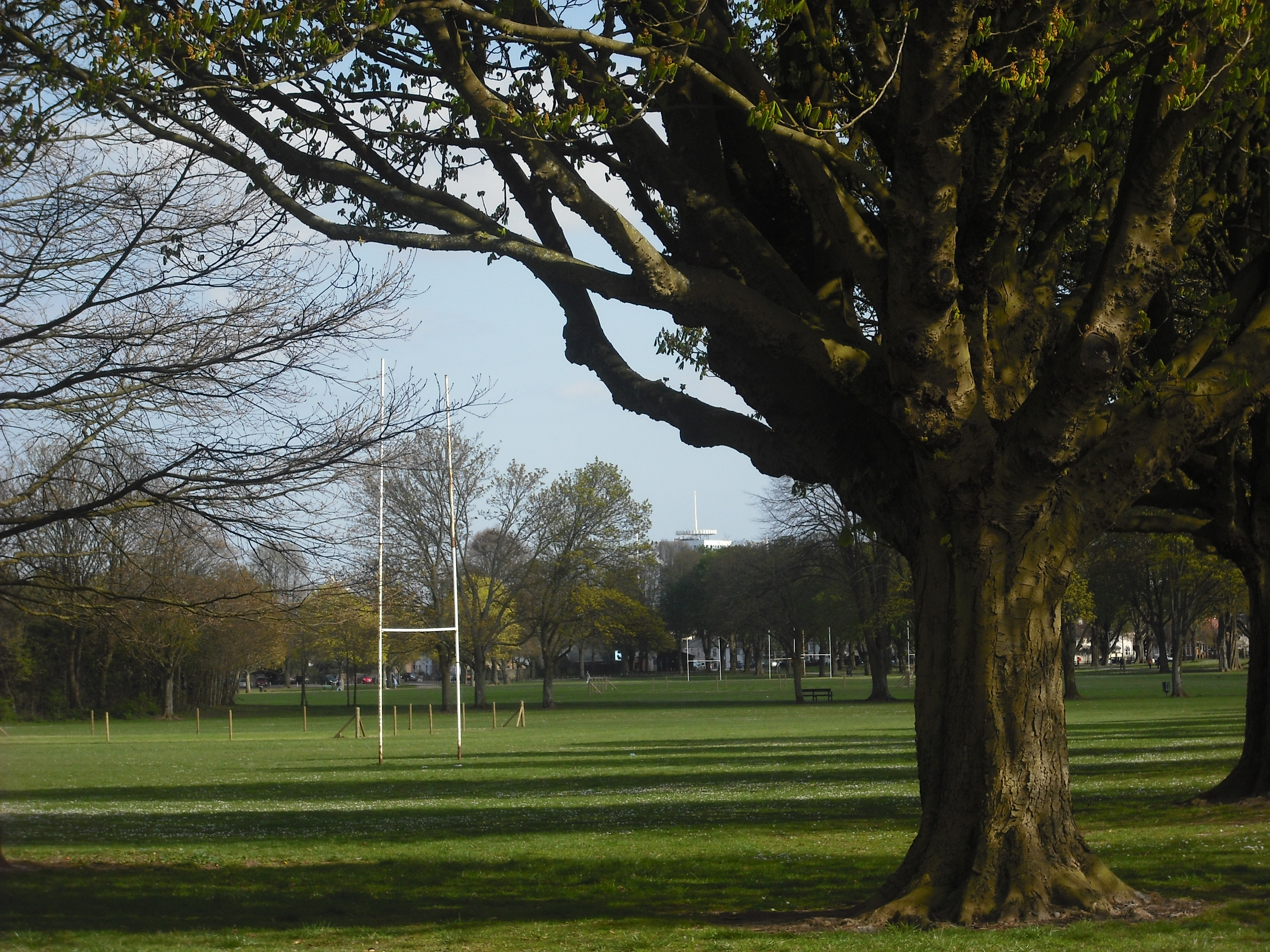 Some rugby pitches of Llandaff Fields in Cardiff